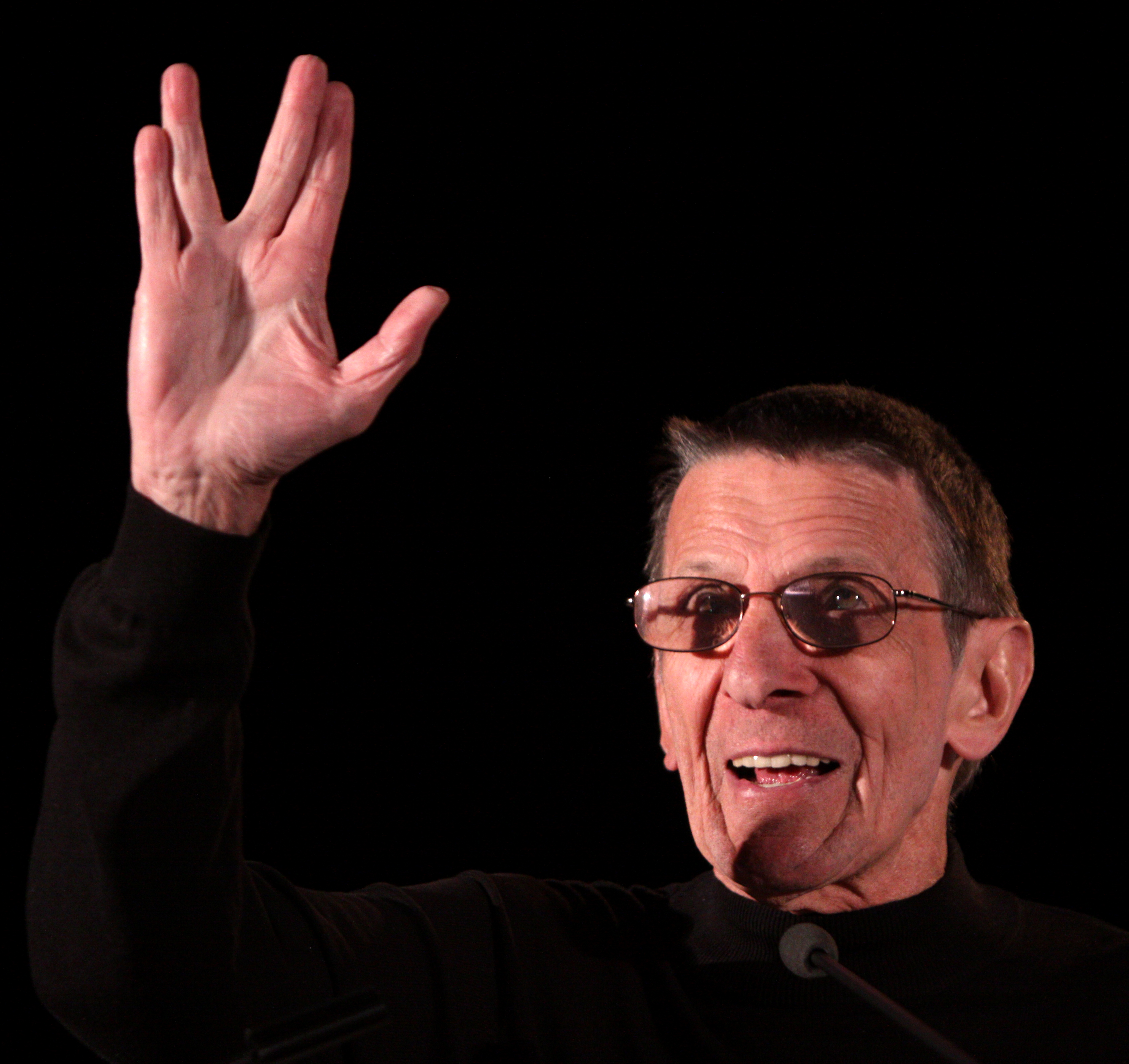 Leonard Nimoy at the 2011 Phoenix Comicon in Phoenix, Arizona.